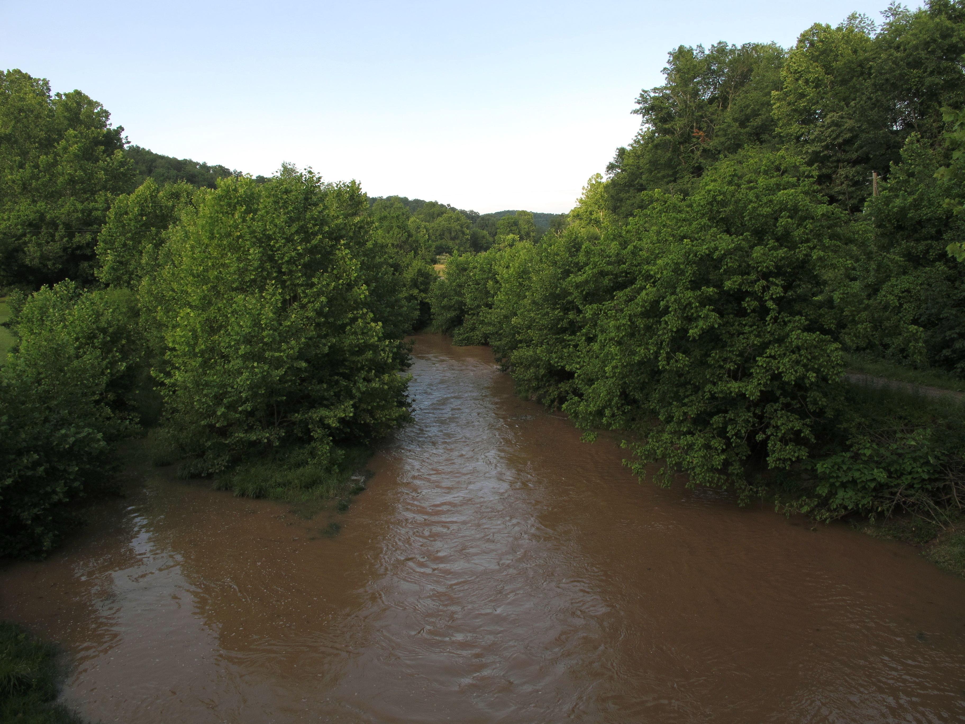 McElroy Creek as viewed upstream from Sandy Creek Road (County Road 6/2) in Shirley in Tyler County, West Virginia